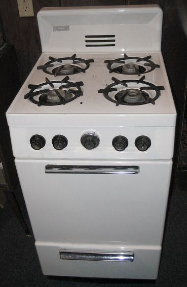 Photo by Quadell. Woodcarving by Donald Ellis Waddell, Jr. What woodcarving?? This seems to be a (surprise, surprise!) gas stove... Lupo 11:02, 4 Oct 2004 (UTC)